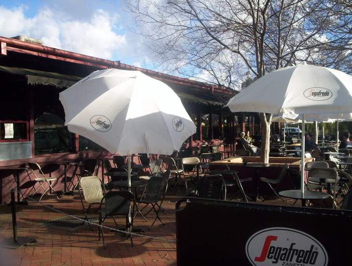 Tilley's cafe in Lyneham, Canberra, Australia. I took the photo Cfitzart 09:44, 22 August 2005 (UTC)